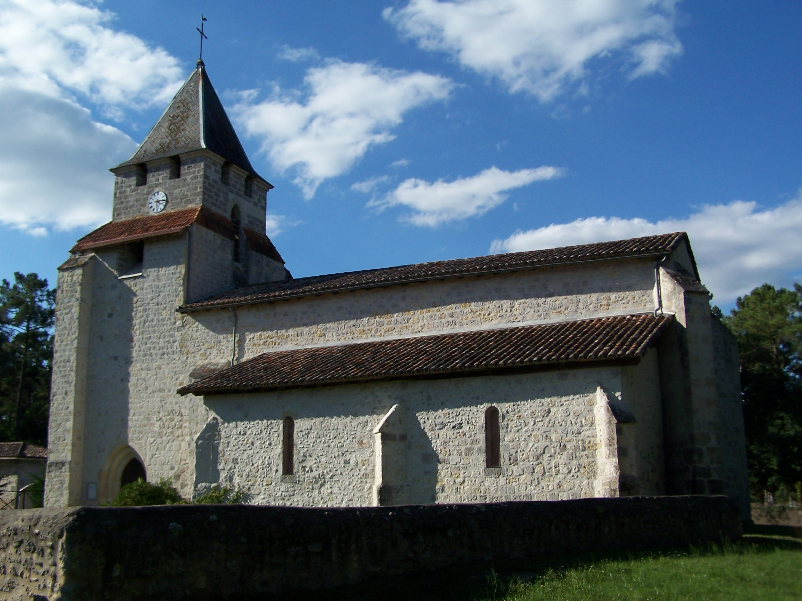 Saint Laurent church of Sauméjan (Lot-et-Garonne, France)